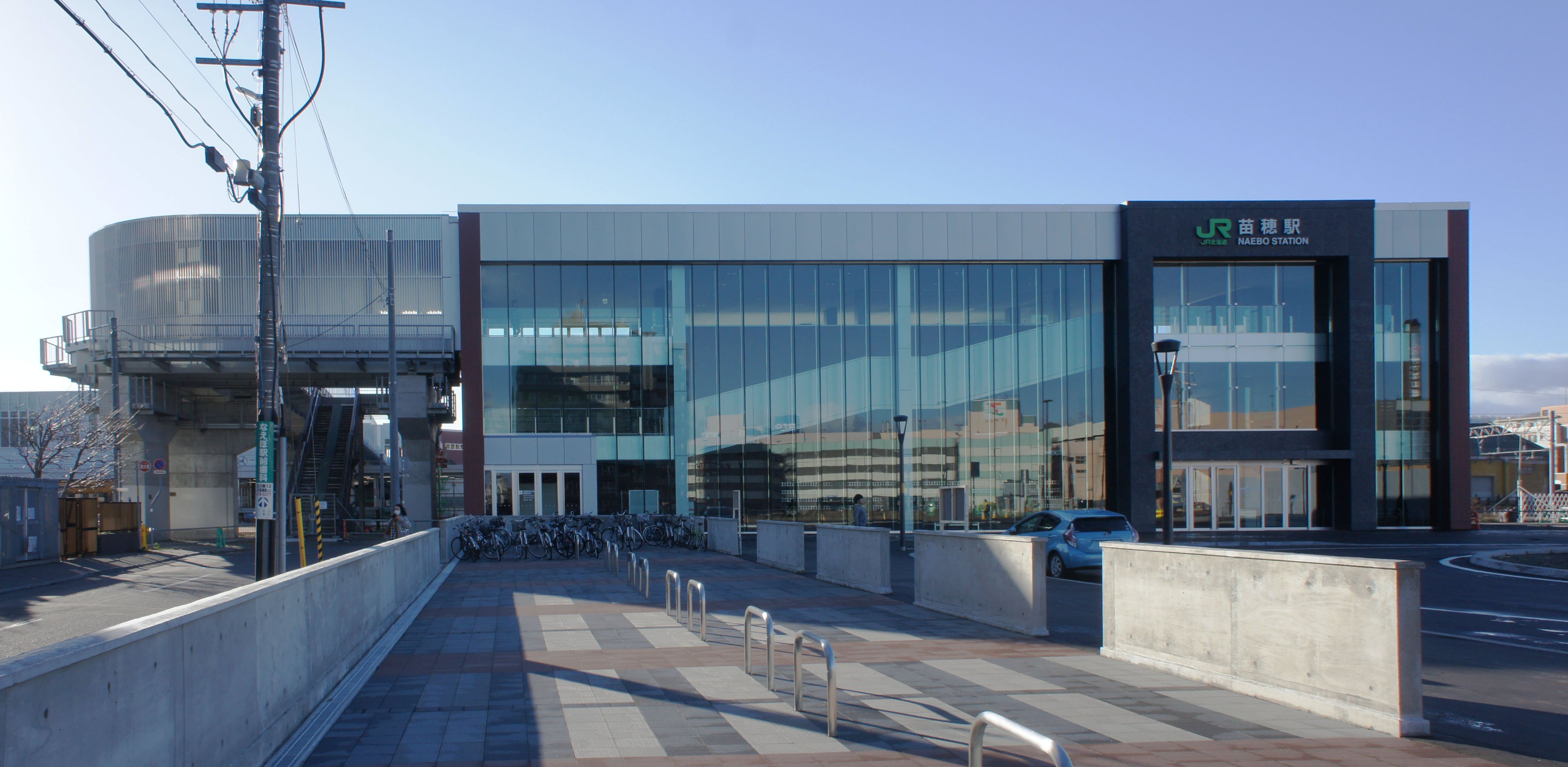 North Exit of JR Hakodate-Main-Line Naebo Station Sony NEX-3